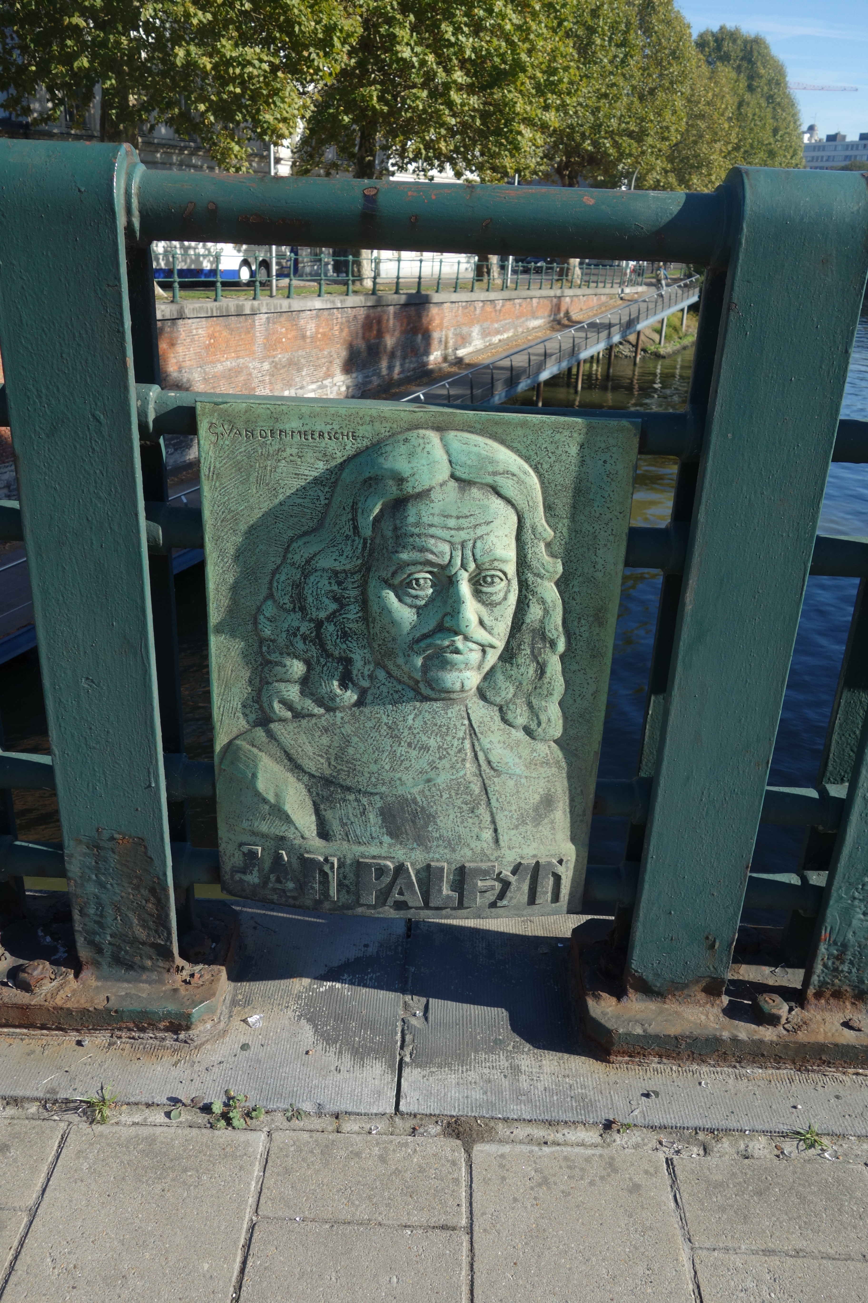 Plaque depicting Jan Palfyn. Ghent, 2018. Artist: Gustaaf Vandenmeersche